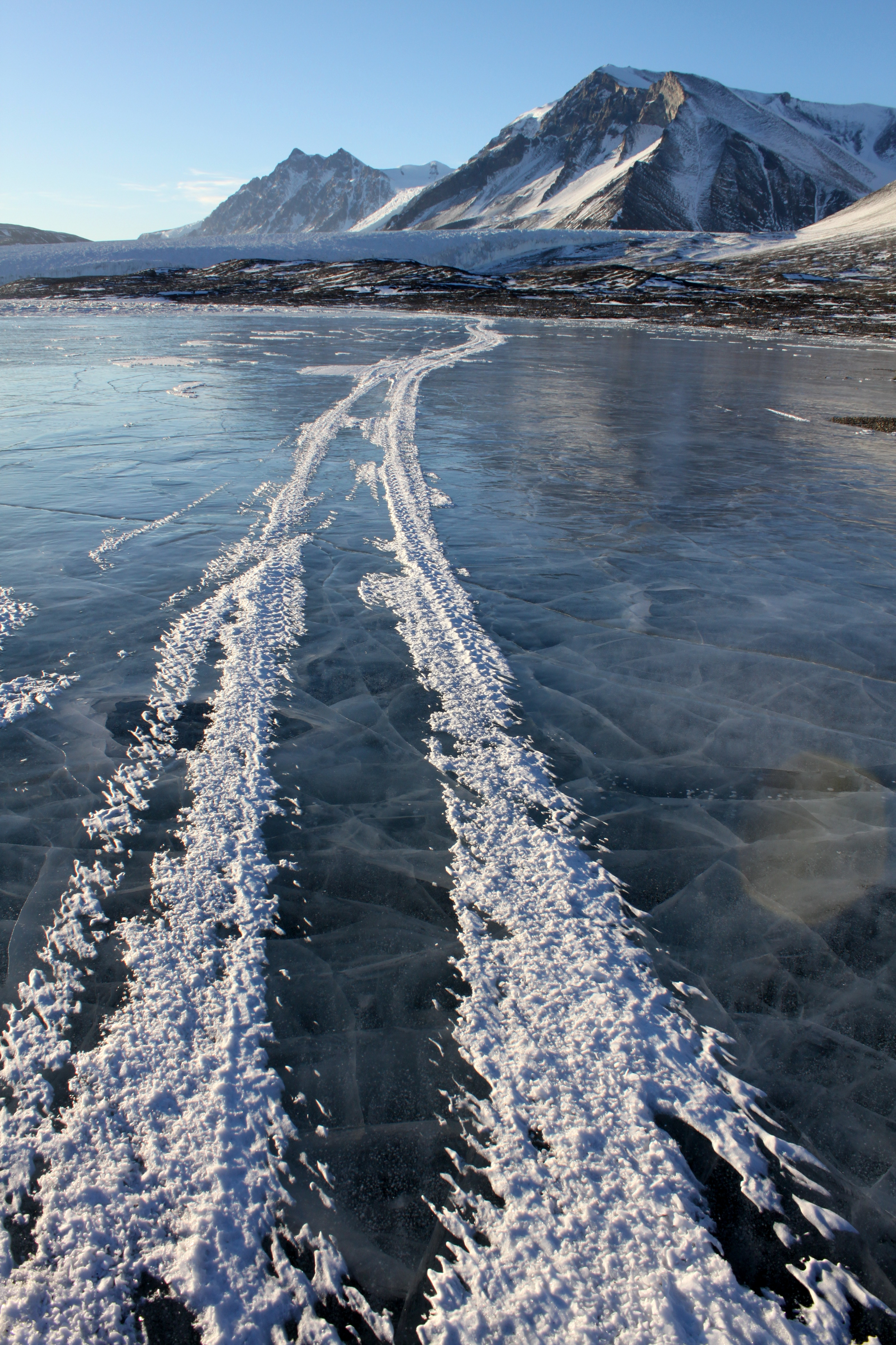 Antarctica Lake Fryxell